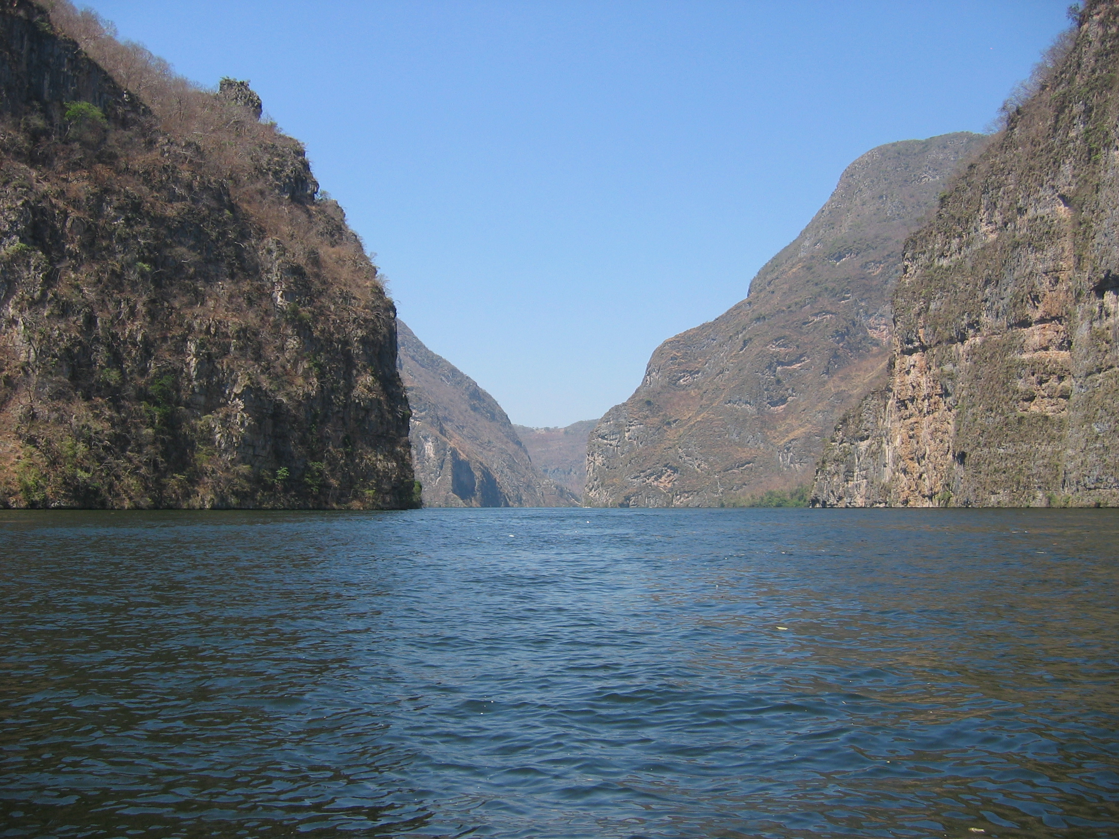 Photo taken by Poppy in March 2005